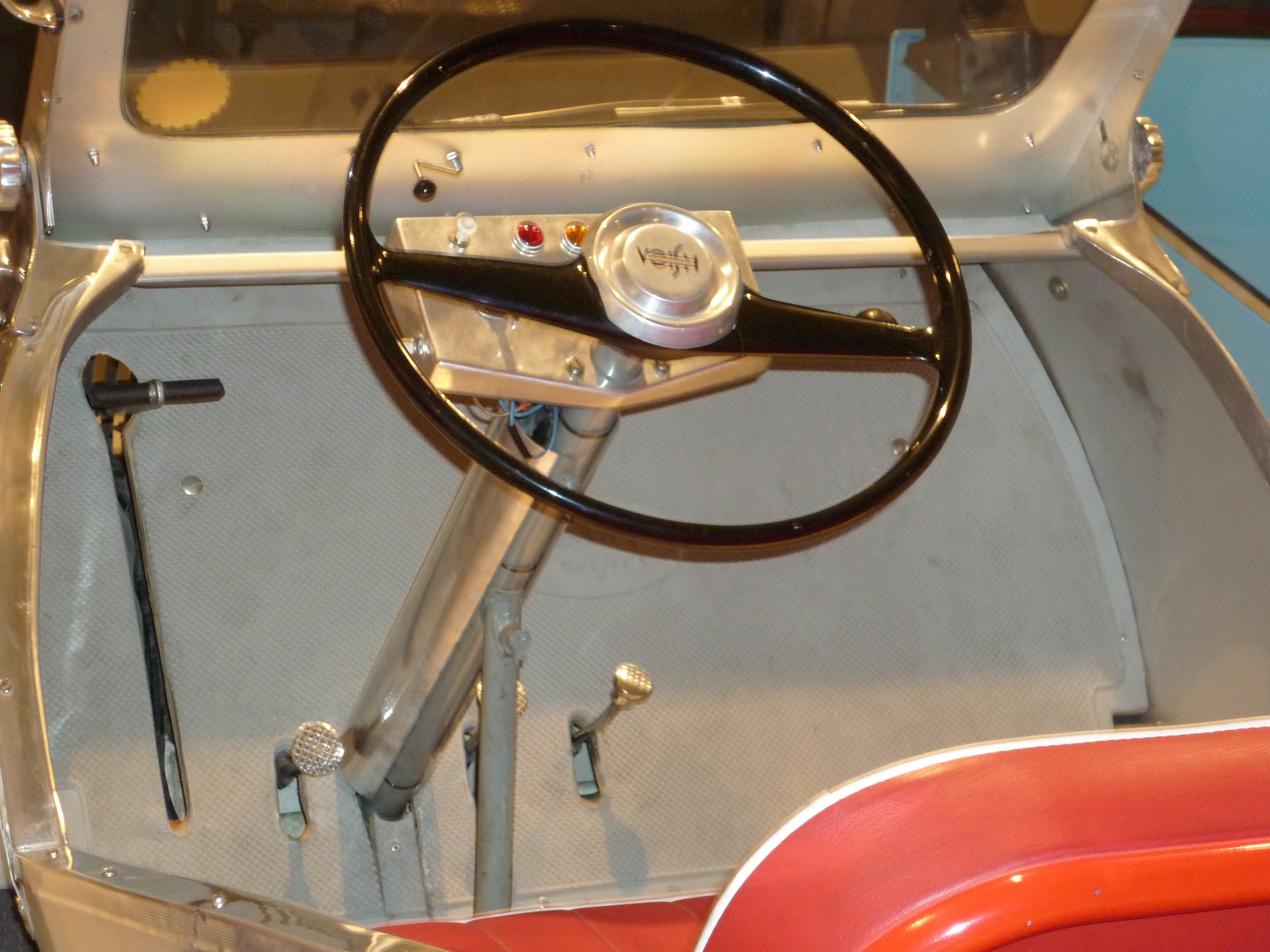 Biscúter 100 "Espardenya" (1953), steering wheel, microcar made in Catalonia